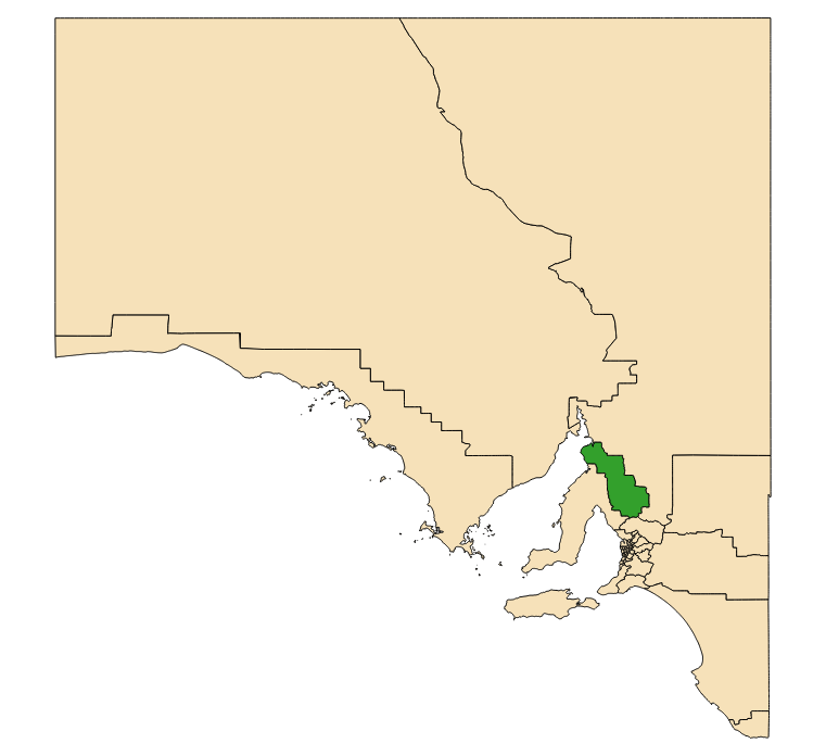 Electoral district 2018 boundaries shown in green